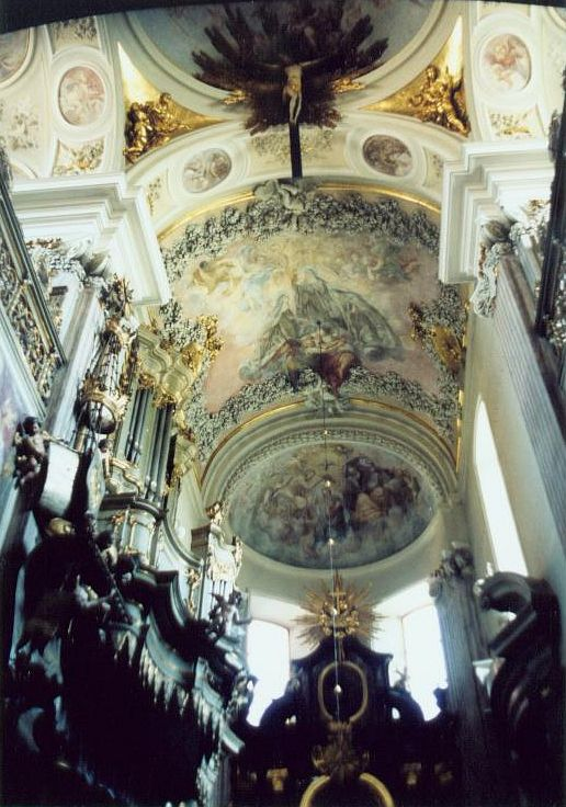 Kraków, St. Andrew church - interior